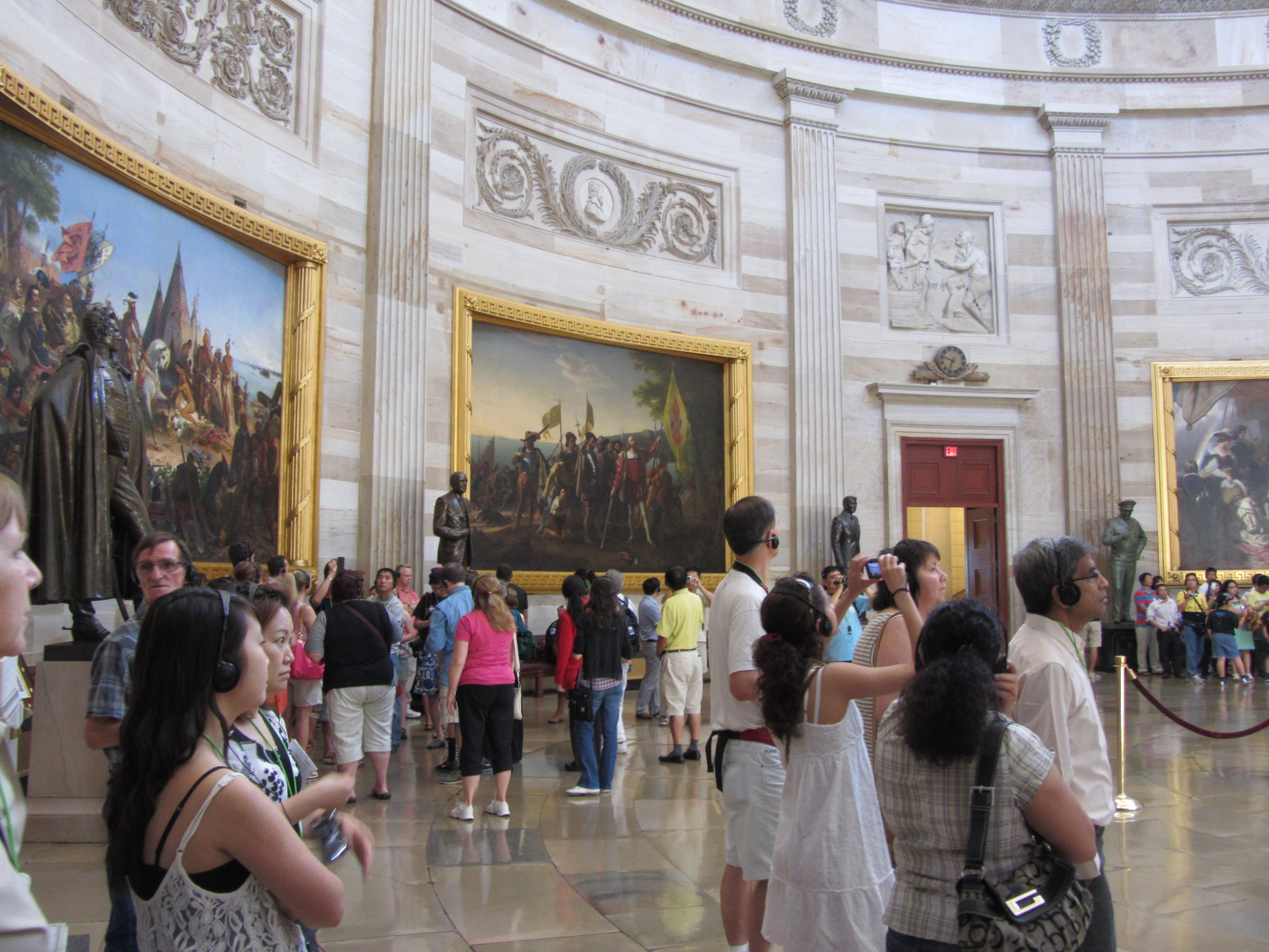 Picture of Tour Group inside the capitol building.